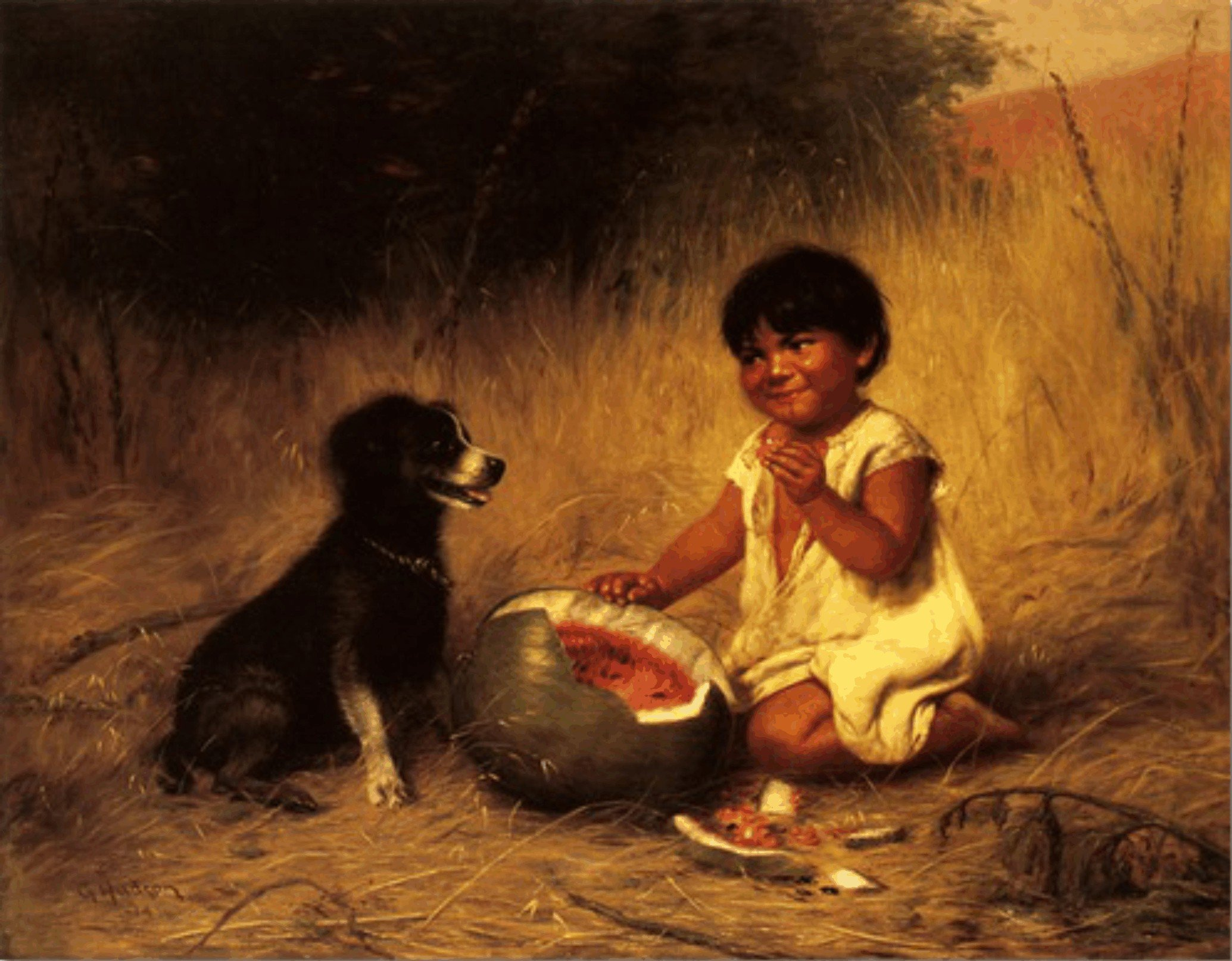 A Native American boy, a dog and a watermelon